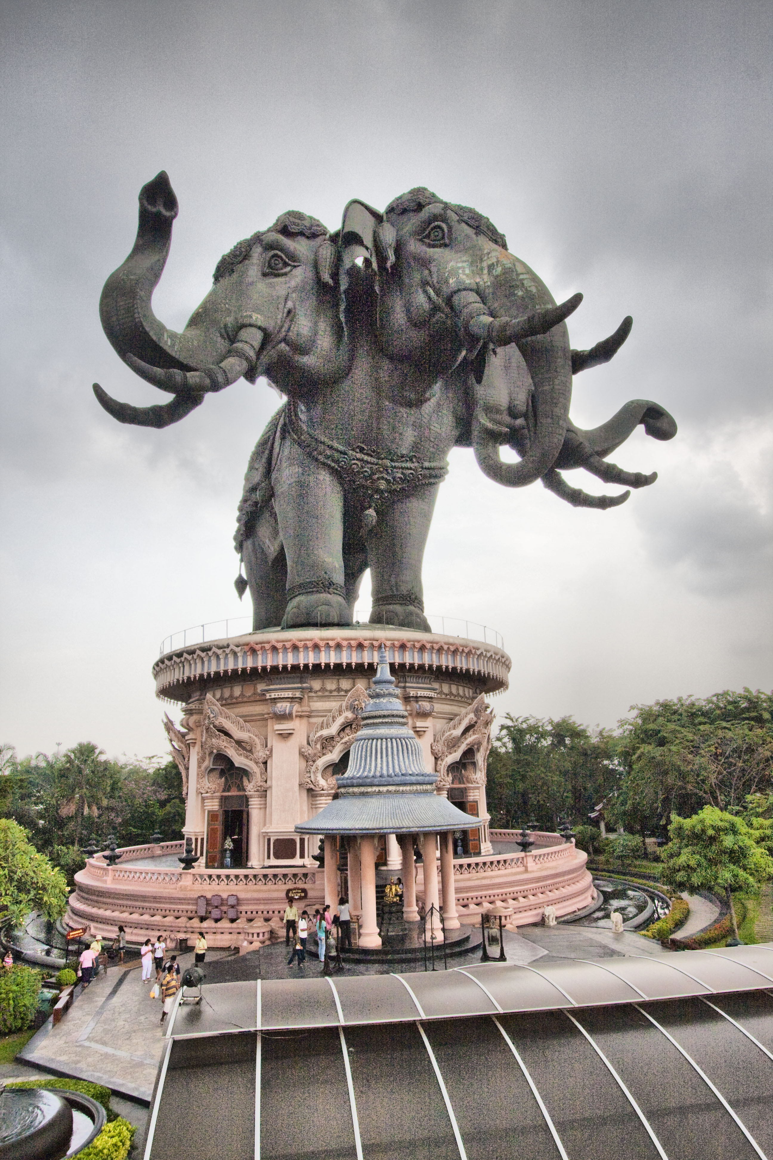 Erawan museum, Bangkok, Thailand